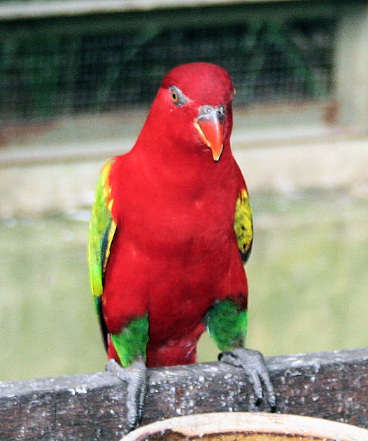 (Lorius garrulus) at Kuala Lumpur Bird Park. The subspecies flavopalliatus is known as the Yellow-backed Lorikeet.